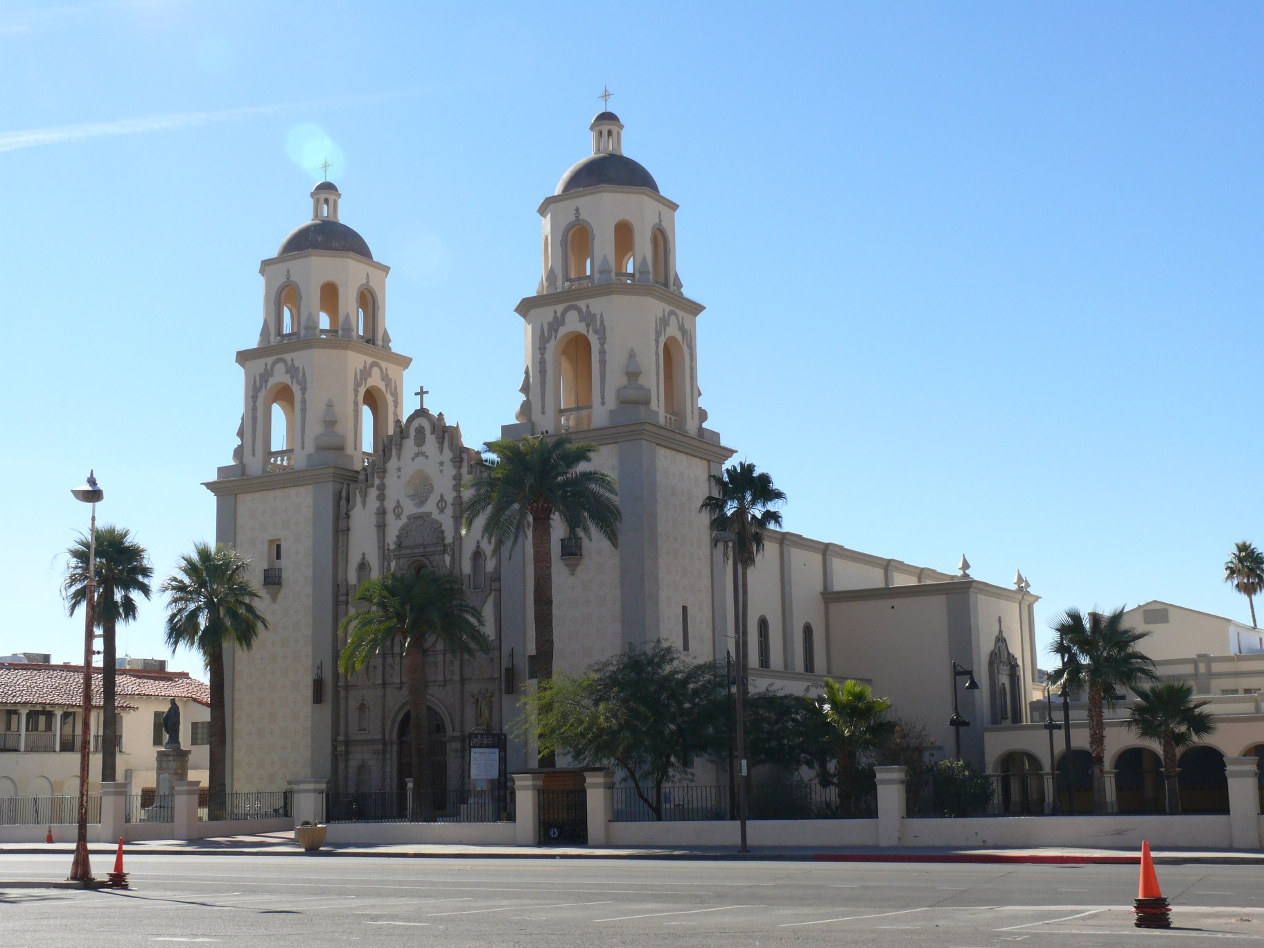 The Cathedral of Saint Augustine in Tucson (Arizona, USA).